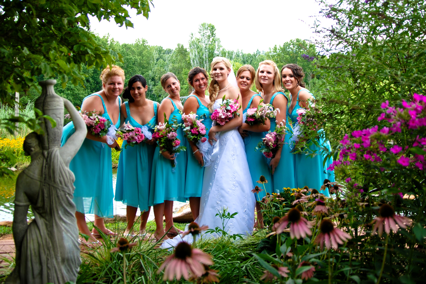 Bridesmaids